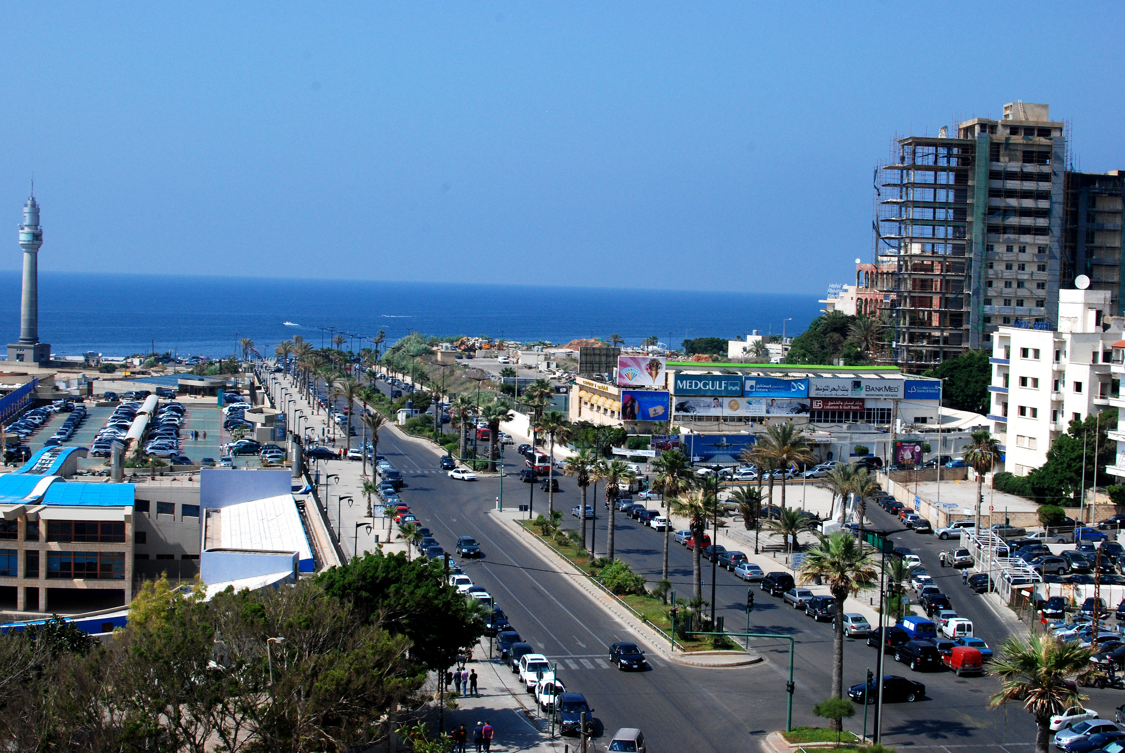 ferris wheel and the corniche